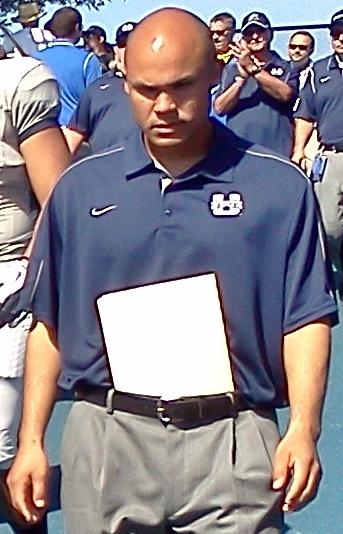 Utah State football defensive coordinator Dave Aranda on Oct. 13, 2012, entering the field for the game against San Jose State at San Jose's Spartan Stadium.